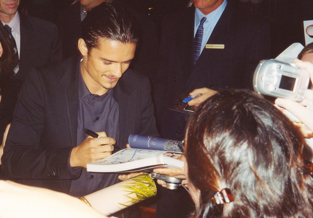 Orlando Bloom signing autographs at the 2005 Toronto International Film Festival promoting Elizabethtown.Elizabethtown_021